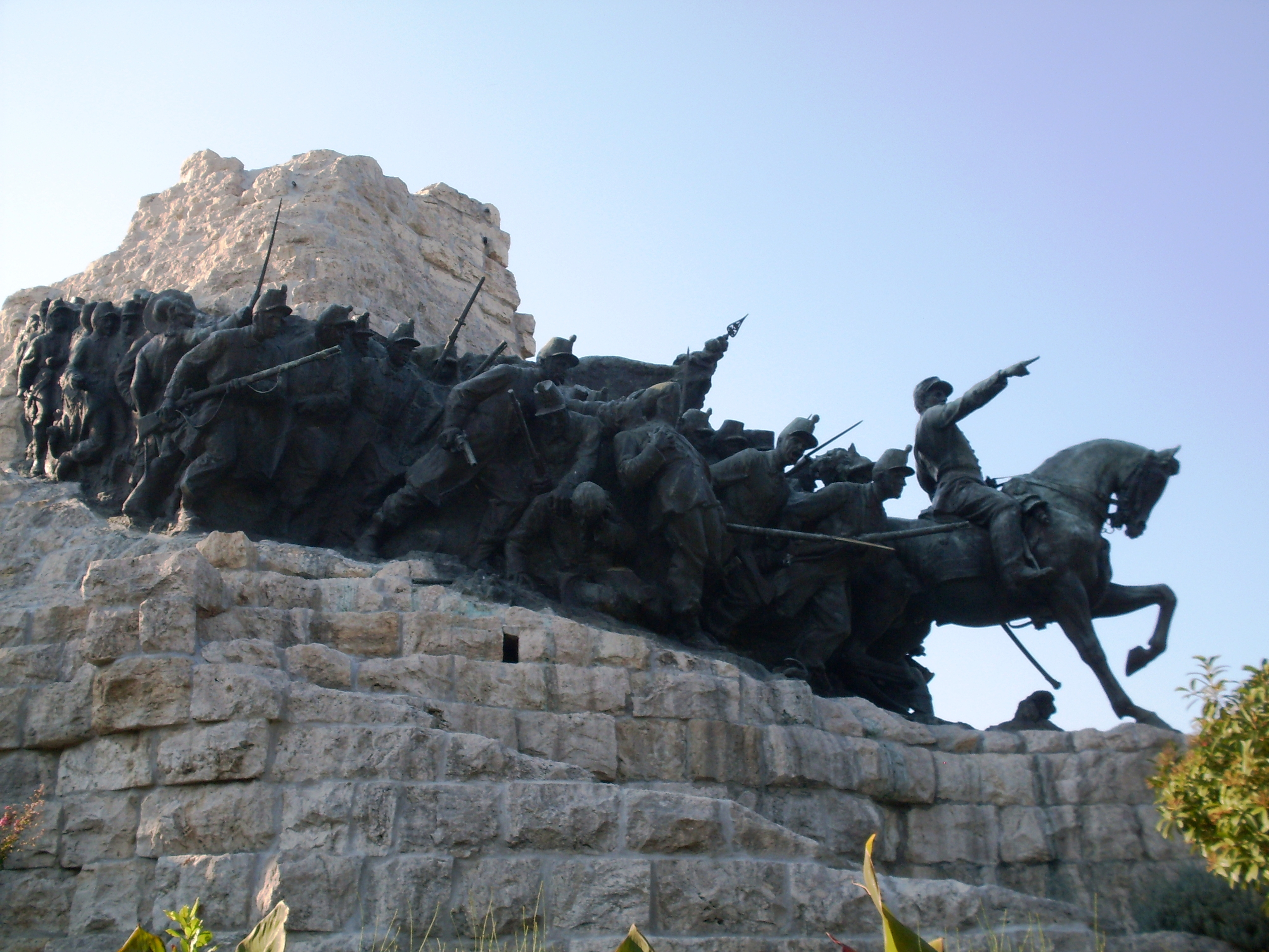 Castelfidardo (AN) - Italy - bronze monument by Vito Pardo describing The Battle di Castelfidardo 20 september 1860 (italians versus papacy to make one country of Italy).